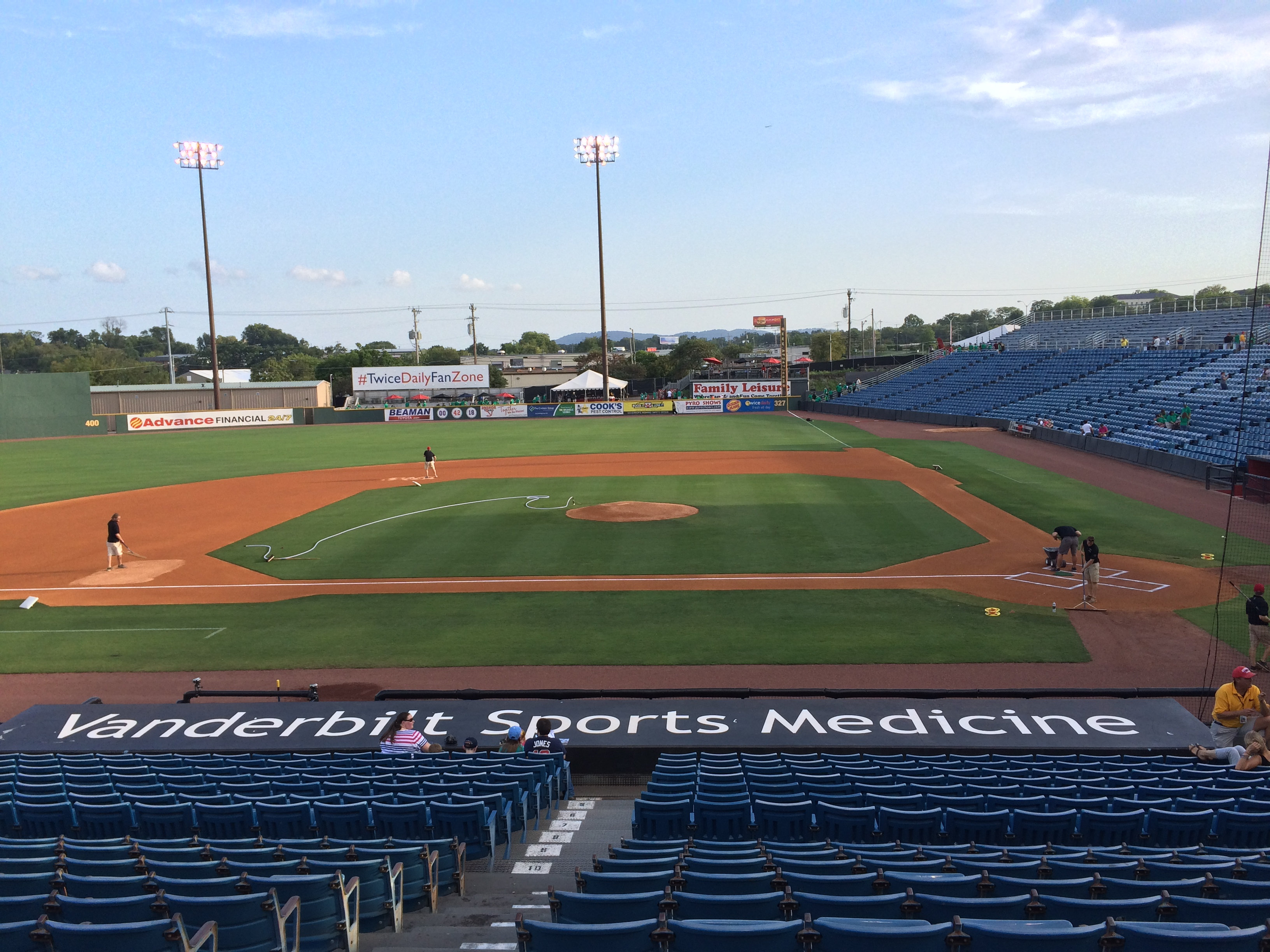 The grounds crew prepares the infield at Herschel Greer Stadium before a game in August 2014